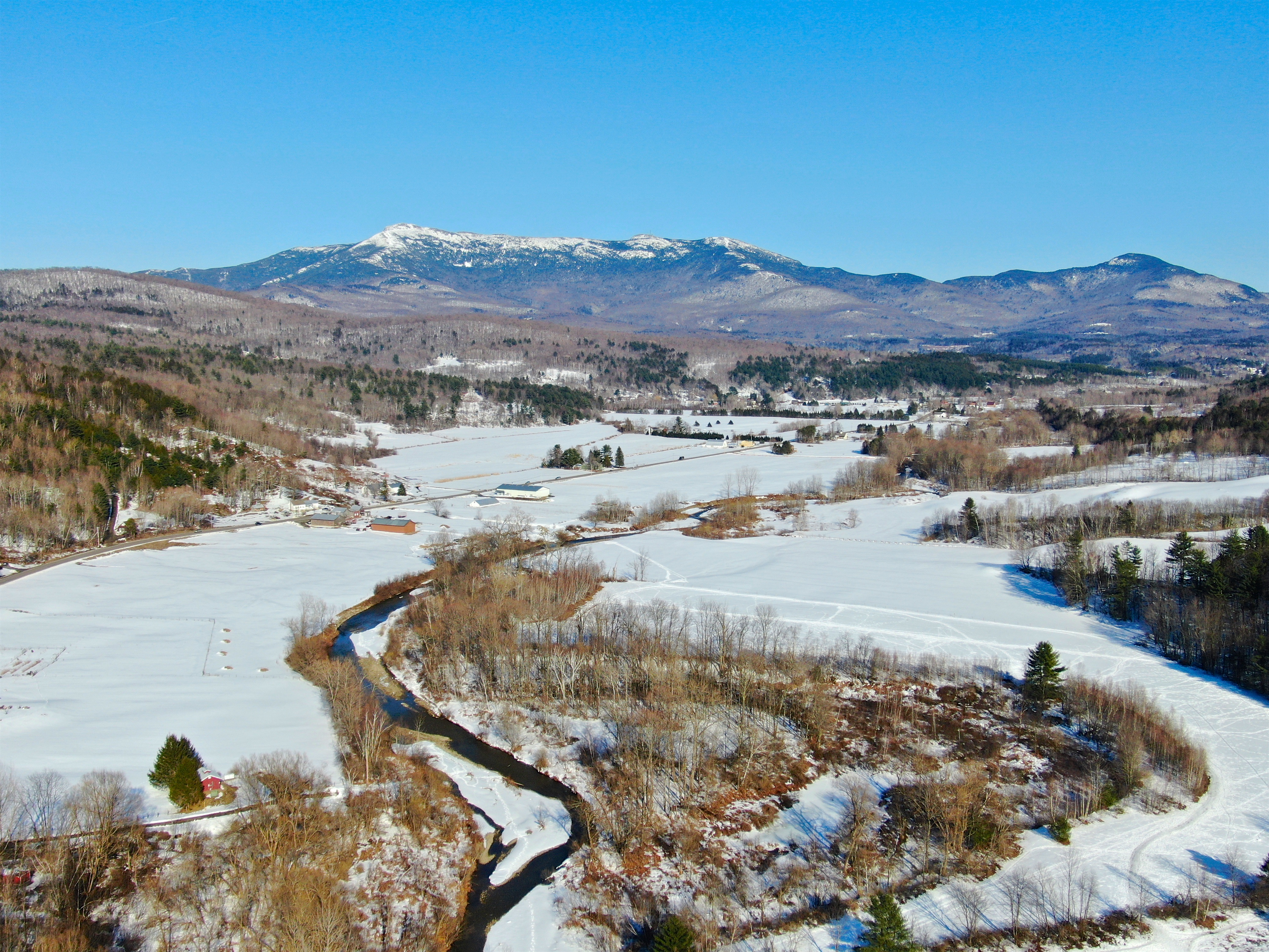 Aerial view of Jericho, Vermont and Mt Mansfield, looking east